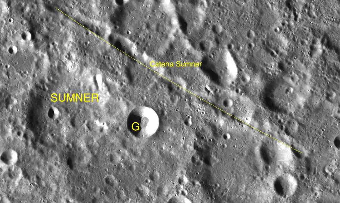 Part of the chart LAC-30 used for the presentation